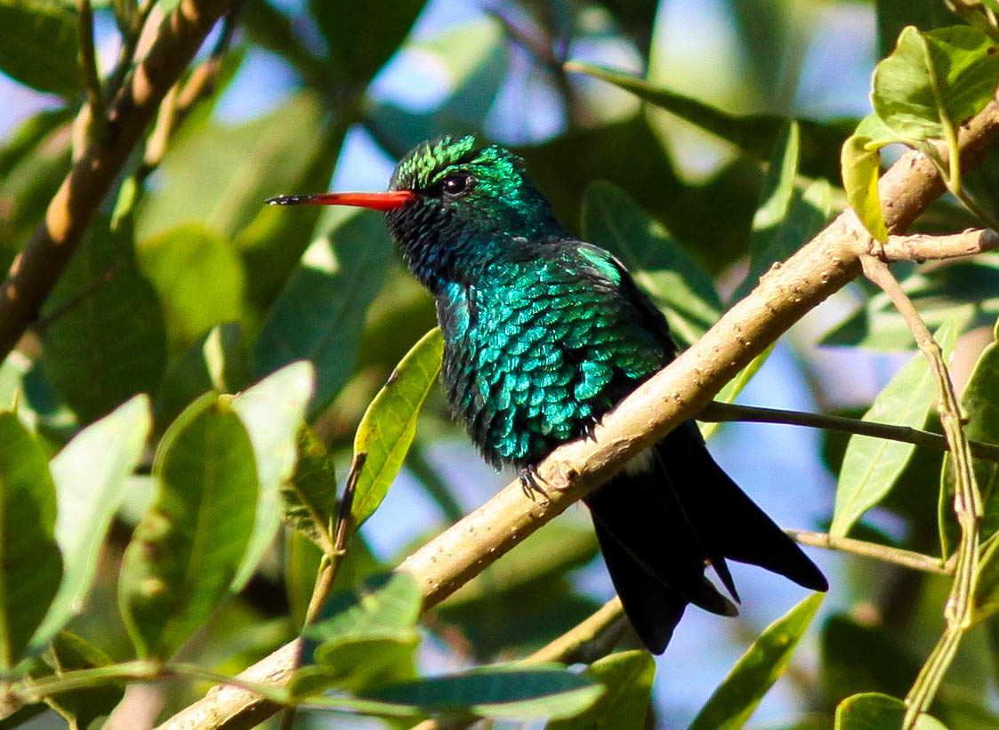 Chlorostilbon lucidus